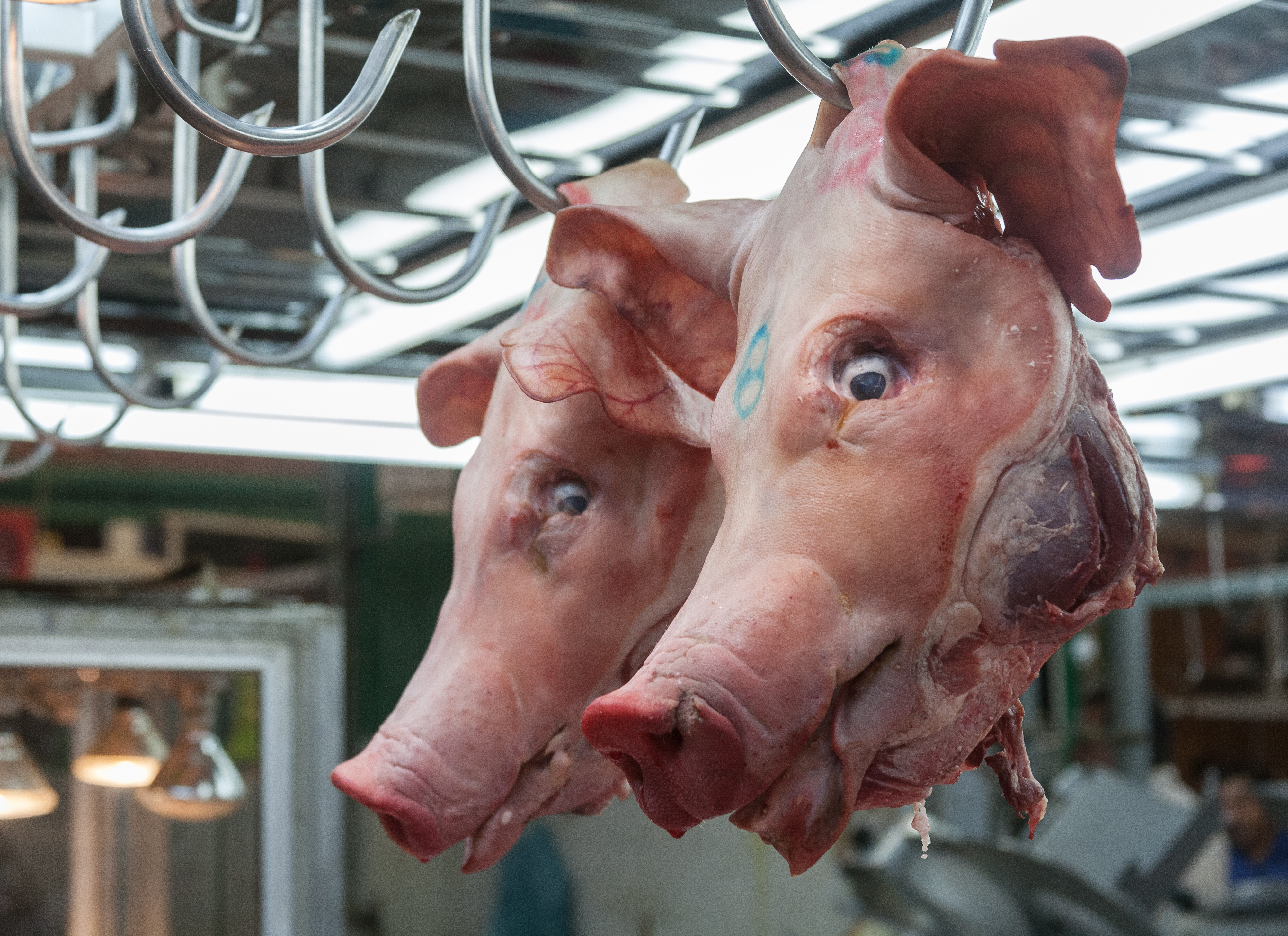 Pig heads in a market.